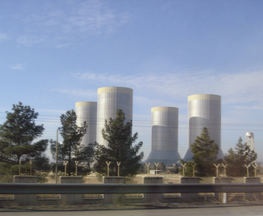 Shahid Rajai power plant, Qazvin, Iran.